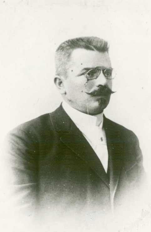 Bulgarian writer Krastyo Krastev (1866-1919)